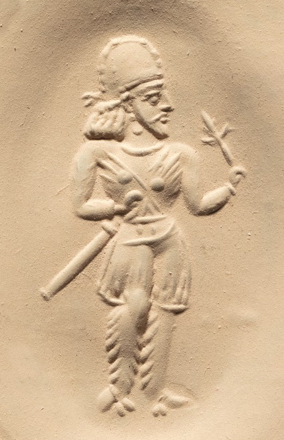 Sassanian seal standing noble holding a flower, ca. 3rd–early 4th century AD